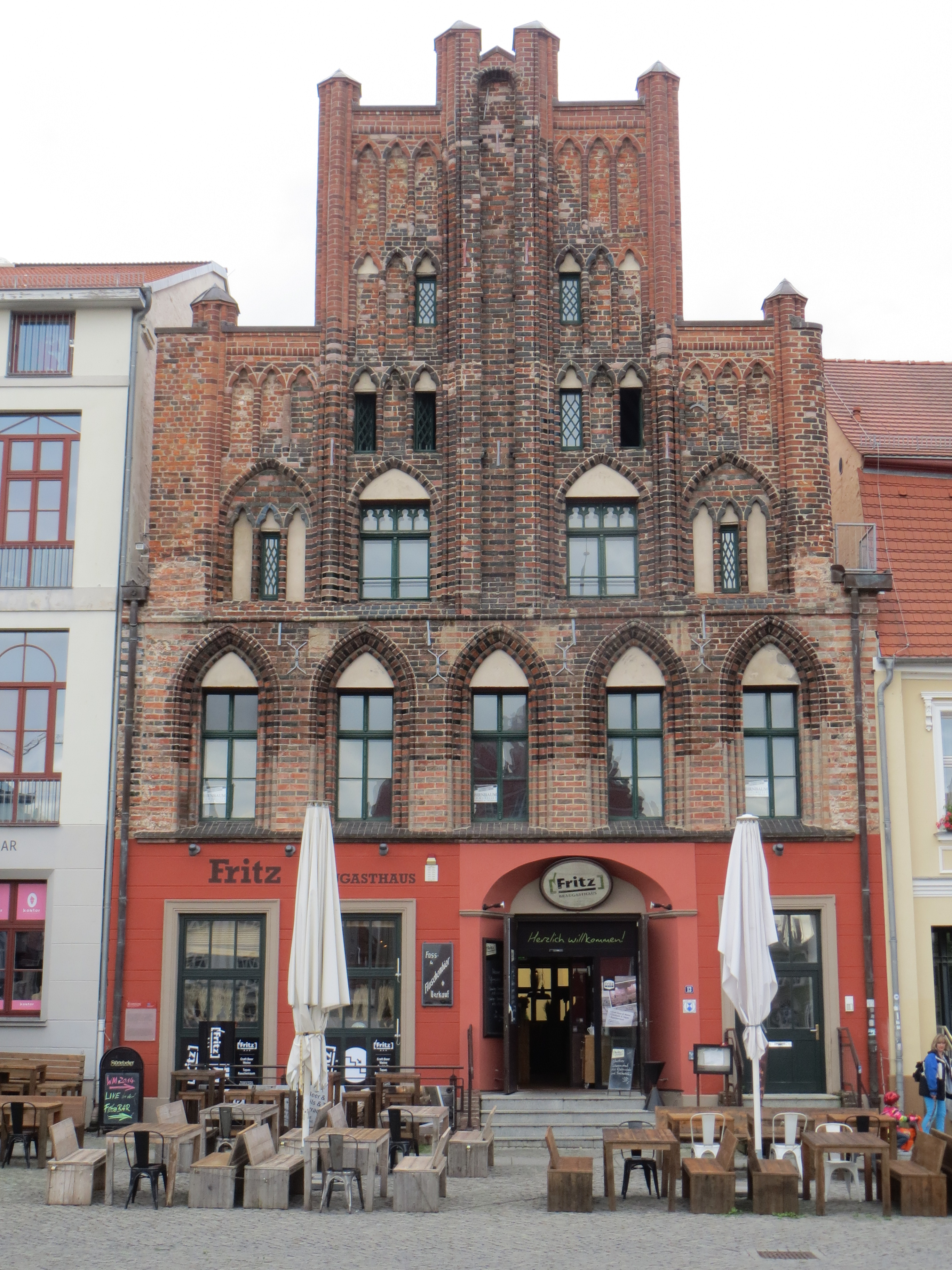 Markt 13 in Greifswald